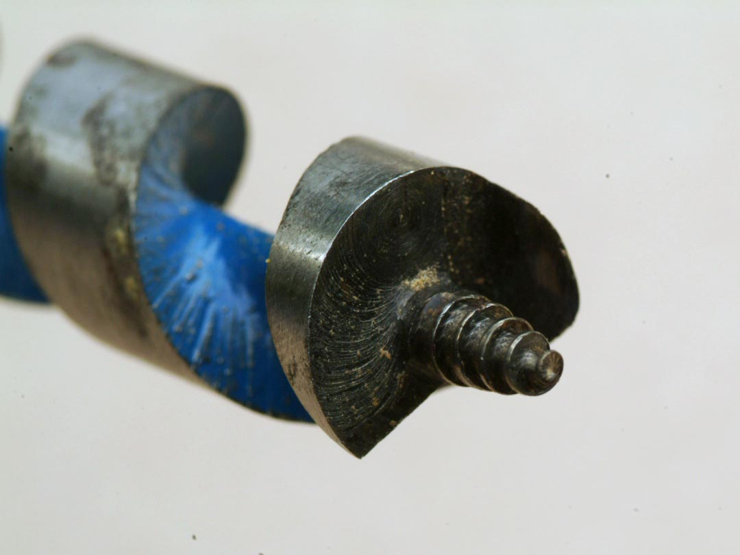 Auger drill bit tip Diameter about 20 mm. Tool made in UK, about 1995. Photo made in UK, June 2005.